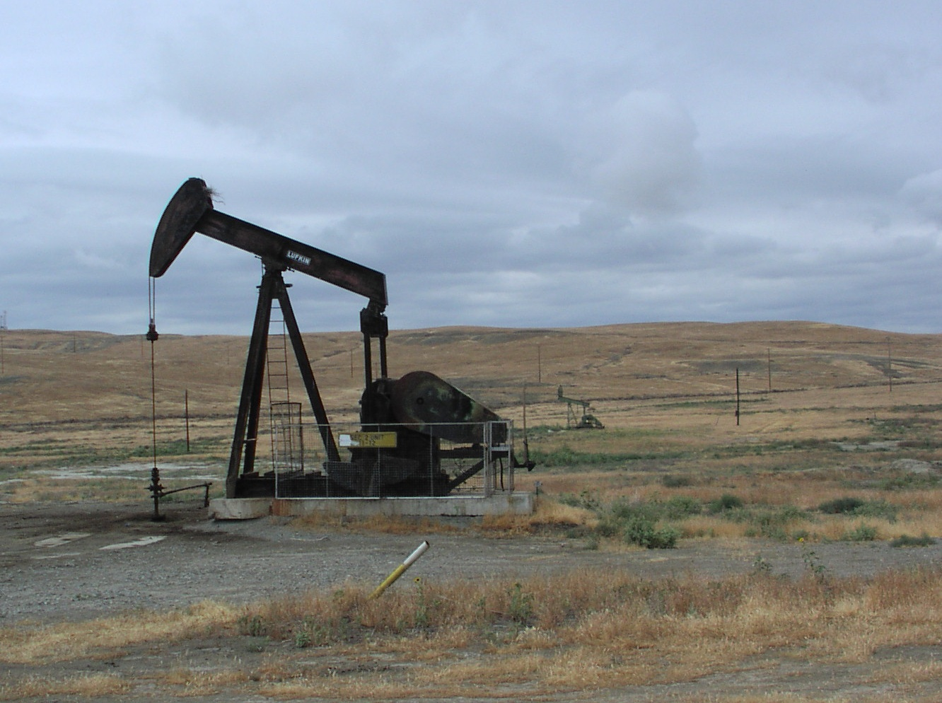 Idle oil well in the eastern portion of the Coalinga Field, by me, May 25, 2008. GFDL.]